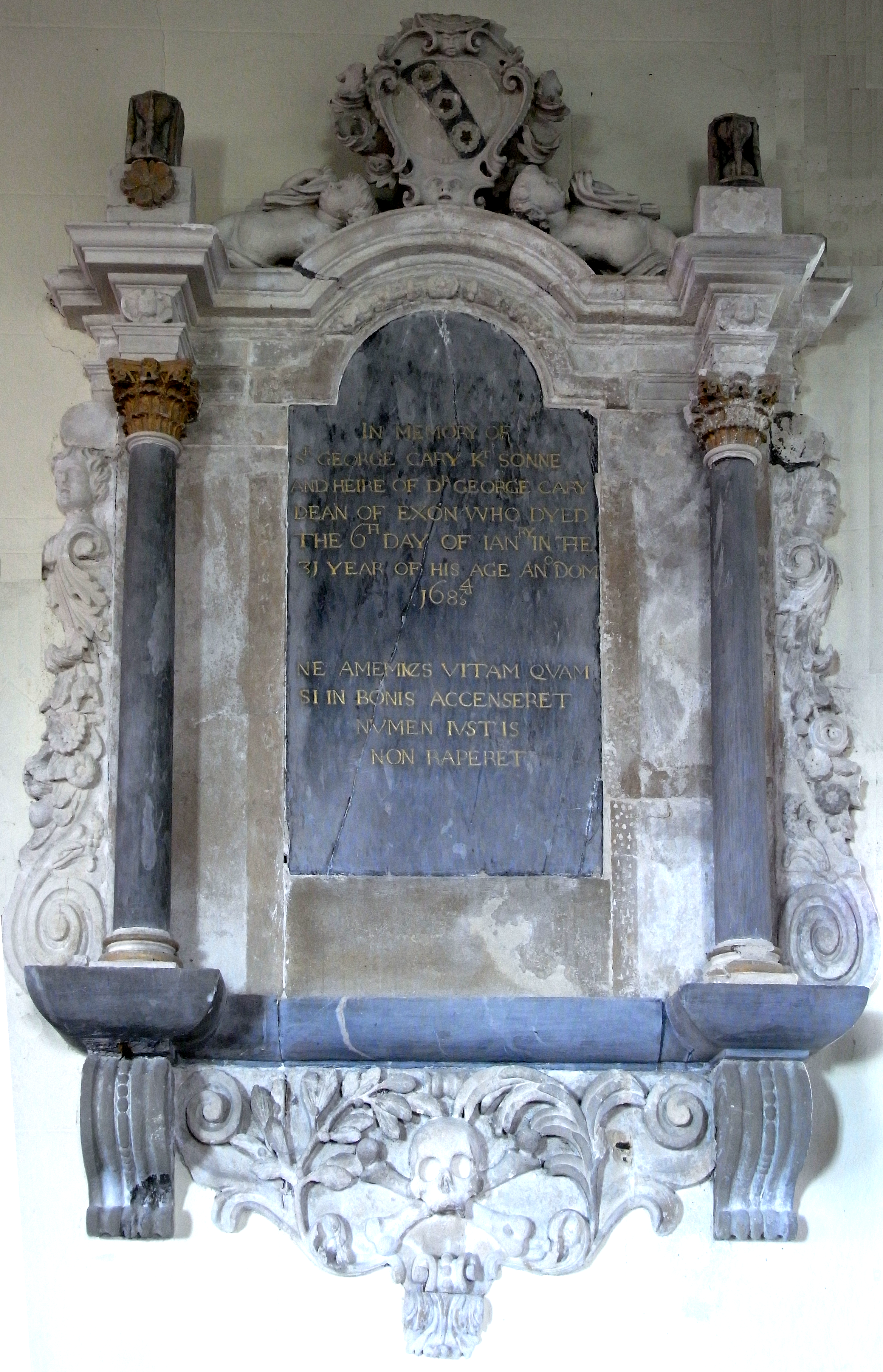 Mural monument of Sir George Cary (1654-1685), lord of the manor of Clovelly, Devon, MP for Okehampton. All Saints Church, Clovelly. Inscribed as follows: "In memory of Sr George Cary Kt sonne and heire of Dr George Cary Dean of Exon who dyed the 6th day of Janry in the 31 year of his age Ano Dom 1684/5. Ne amemines vitam quam si in bonis accenseret numen justis non raperet". (Do not .... life, .... God would not seize away the Just if he had not counted them amongst the Good)